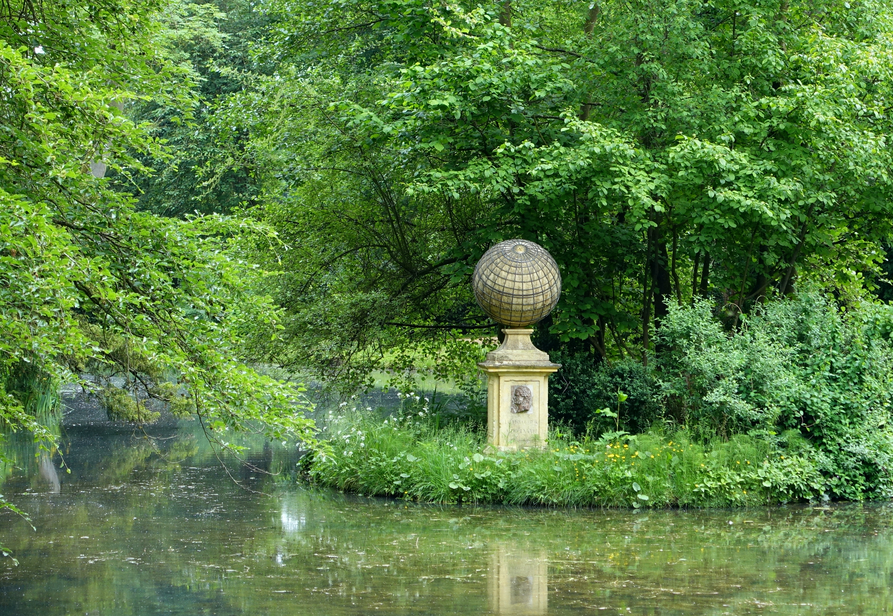 Captain Cook's Monument, Stowe - Buckinghamshire, England.